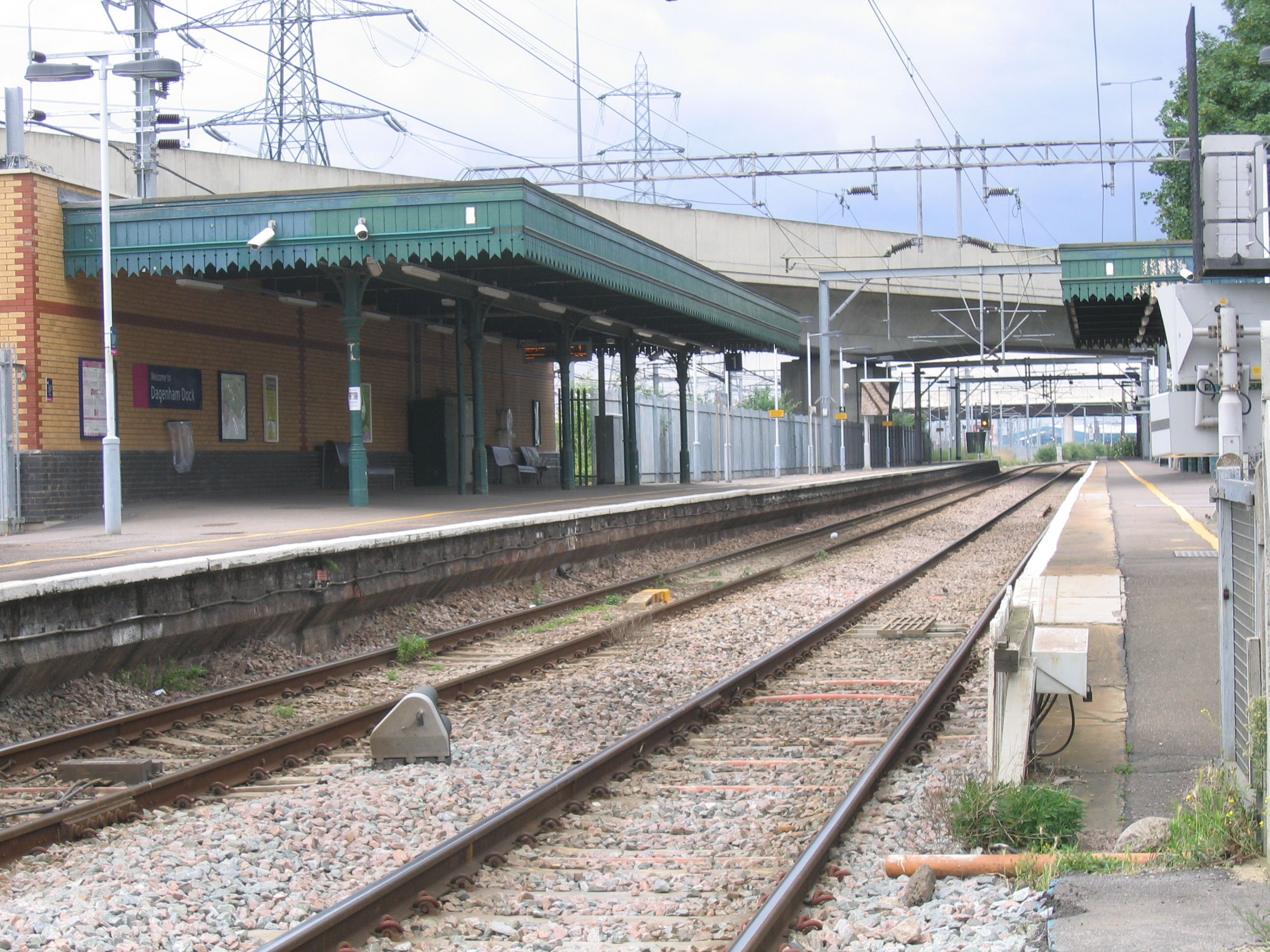 Dagenham Dock station - The Channel Tunnel high speed railway has recently been built running to the left of it and cutting off the road that crossed the line at this point.